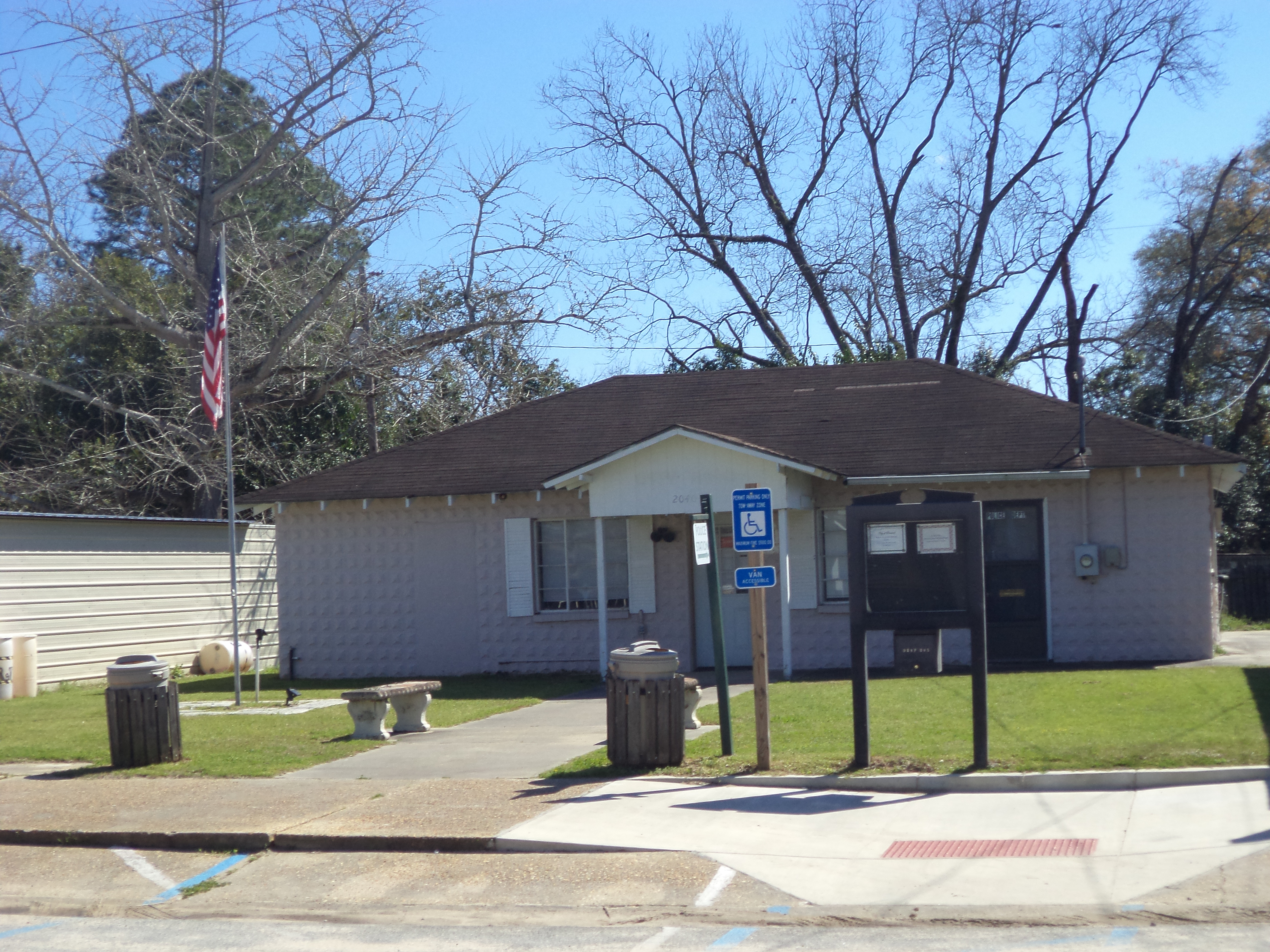 Barwick City Hall and Police Department, Main St., Barwick, Brooks County, Georgia